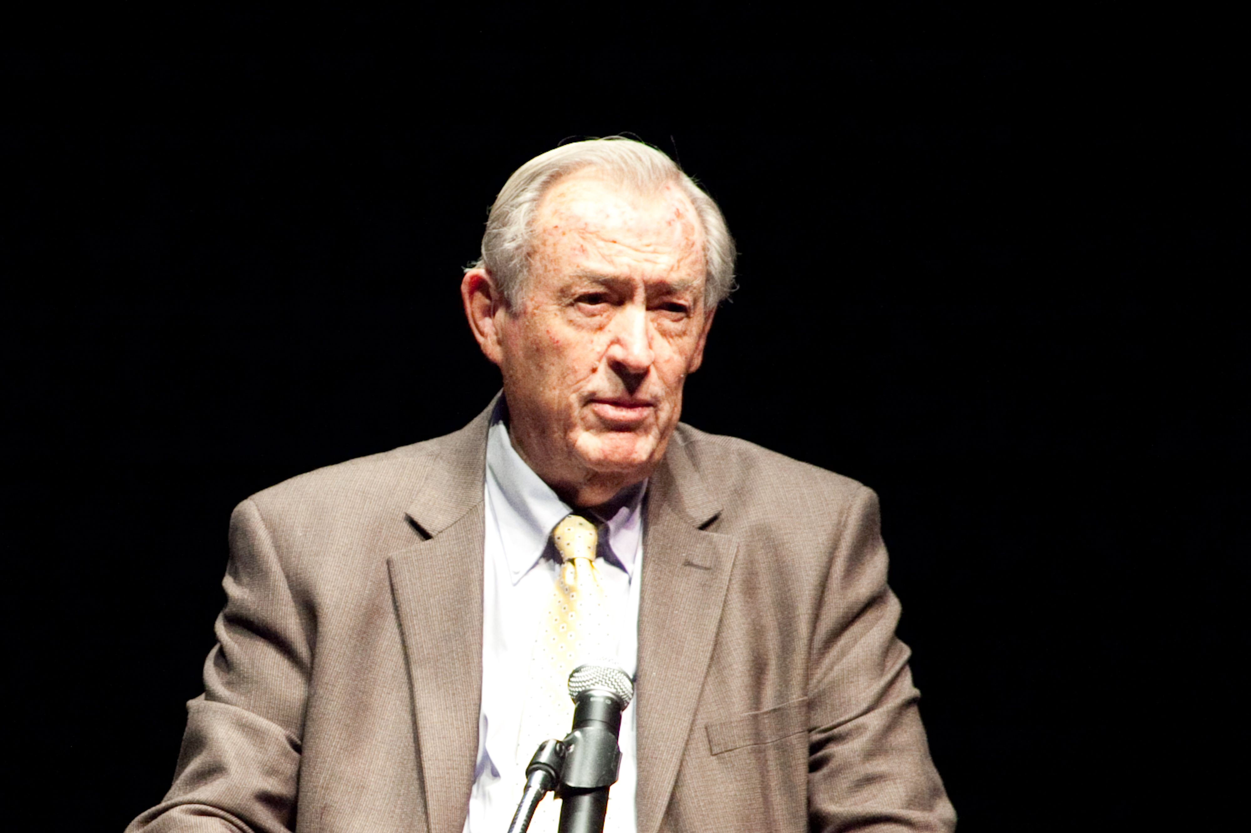 Richard Leakey at the Progressive Forum.